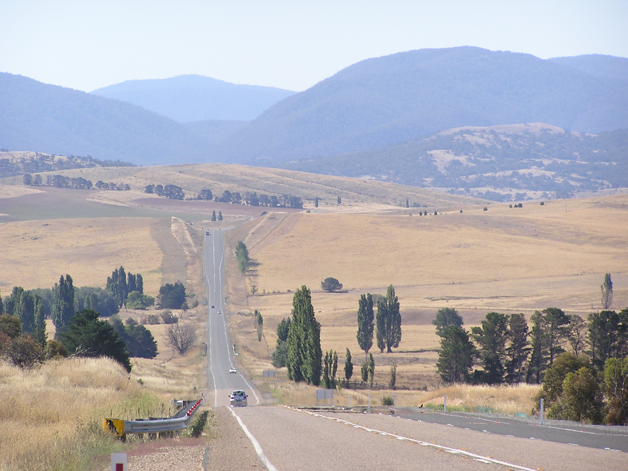 Monaro Highway, New South Wales, Australia travelling from Cooma to Canberra Picture taken by AYArktos